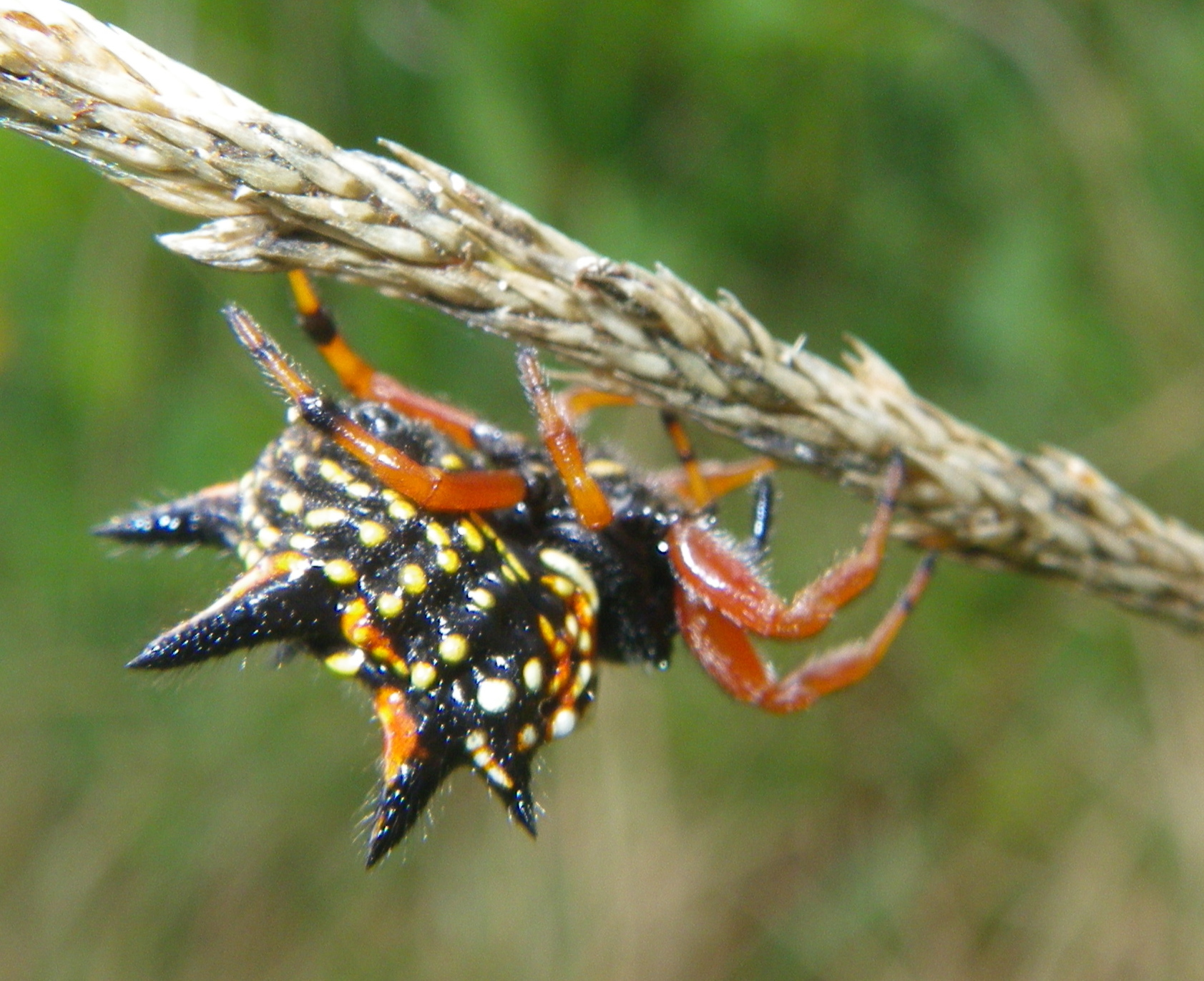 Austracantha minax on the south coast of New South Wales, Australia.